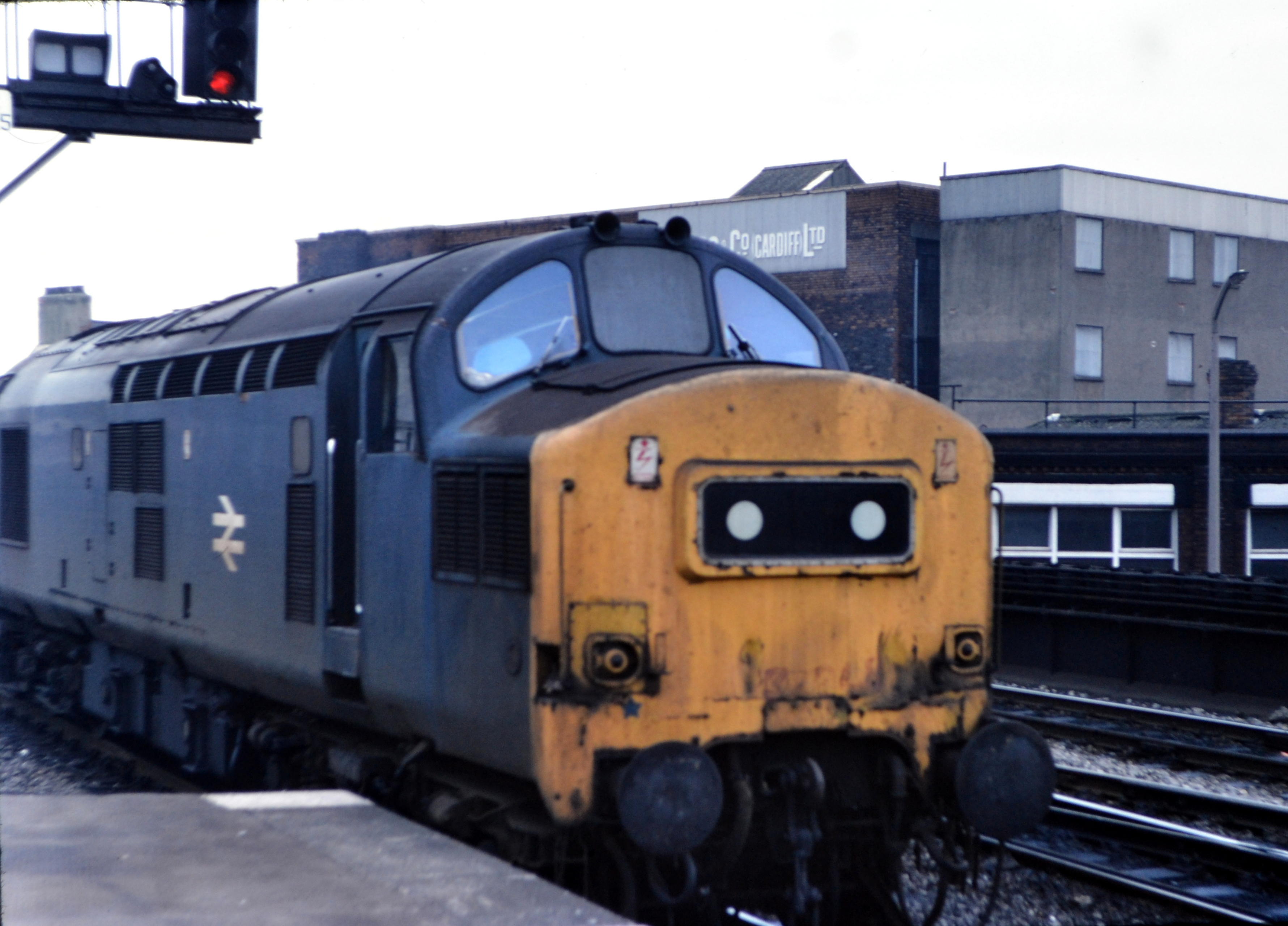 A class 37 at Cardiff Central in the late 1970s